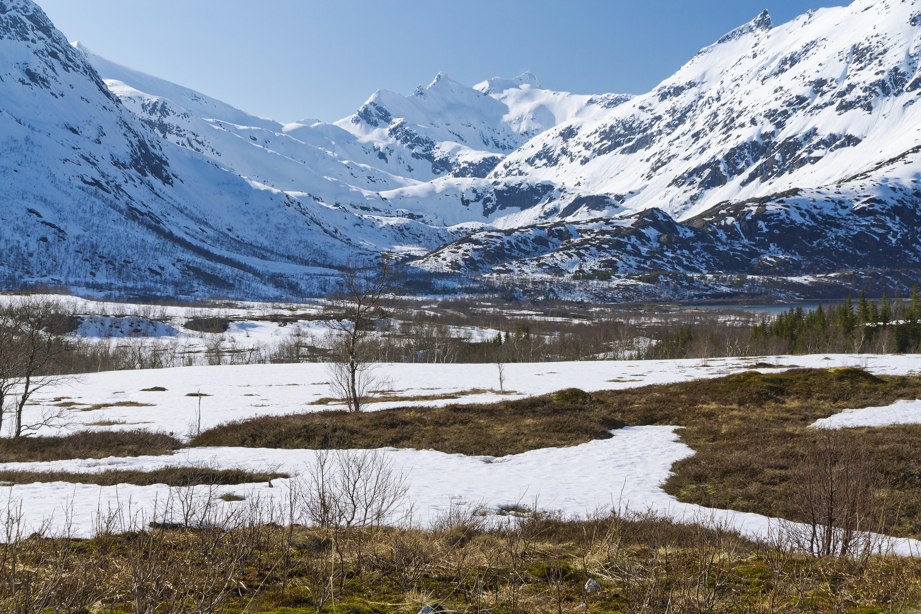 Mountains of Vesterdalen in Kvæfjord, Hinnøya, Troms, Norway in 2015 April. The mountain in the middle is Snøtindan and to the right is Løbergsdalstindan.